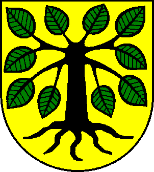 Coat of arms of the municipality Büchen in Schleswig-Holstein, Germany.